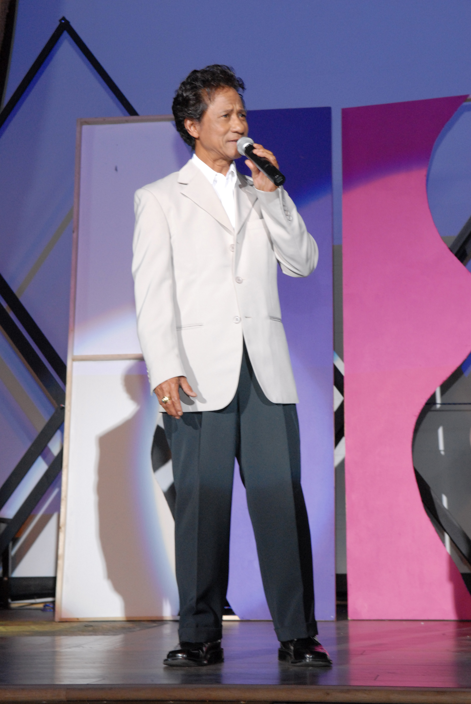 Vietnamese vocalis Chế Linh